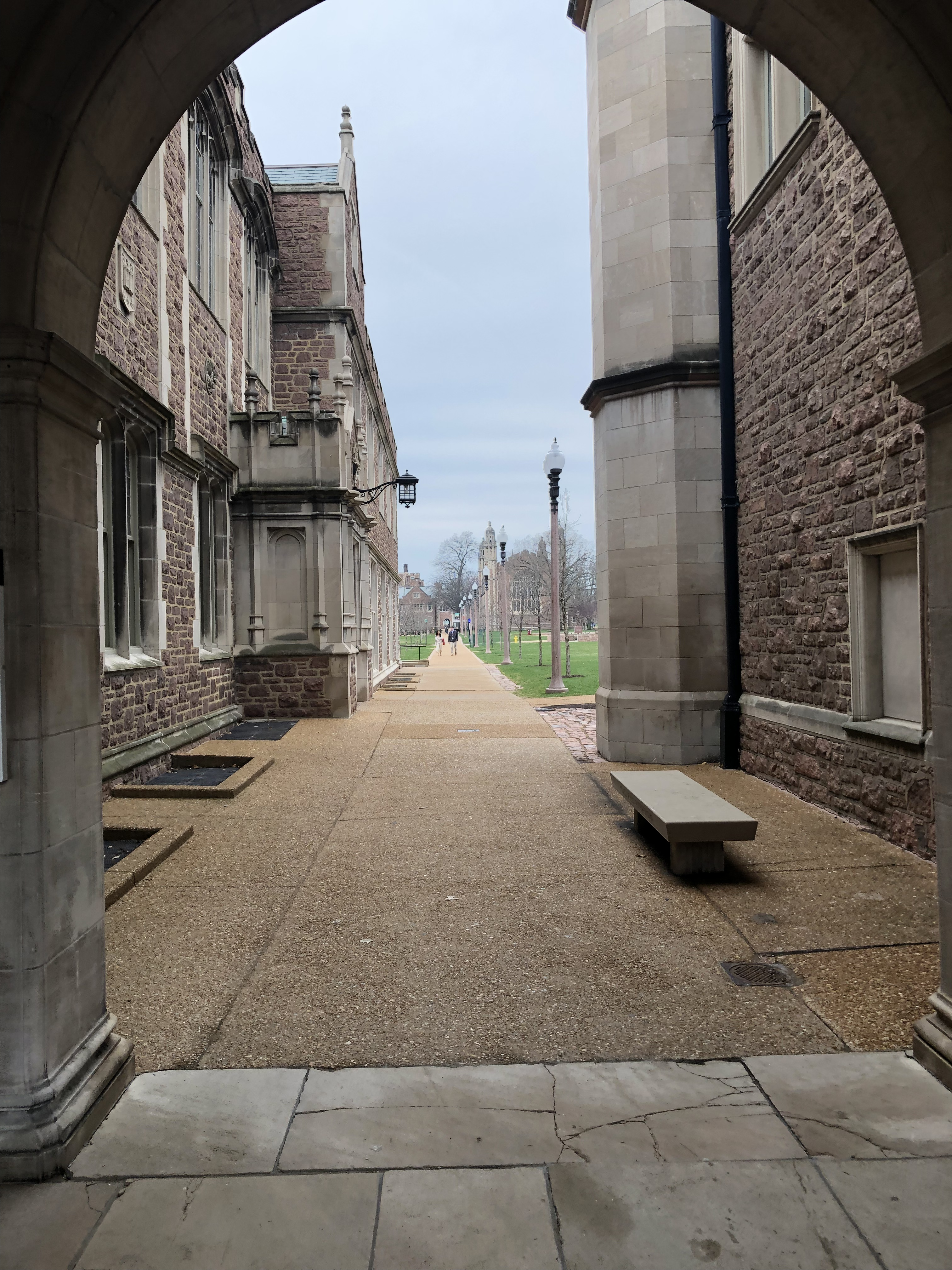 WUSTL Danforth Campus